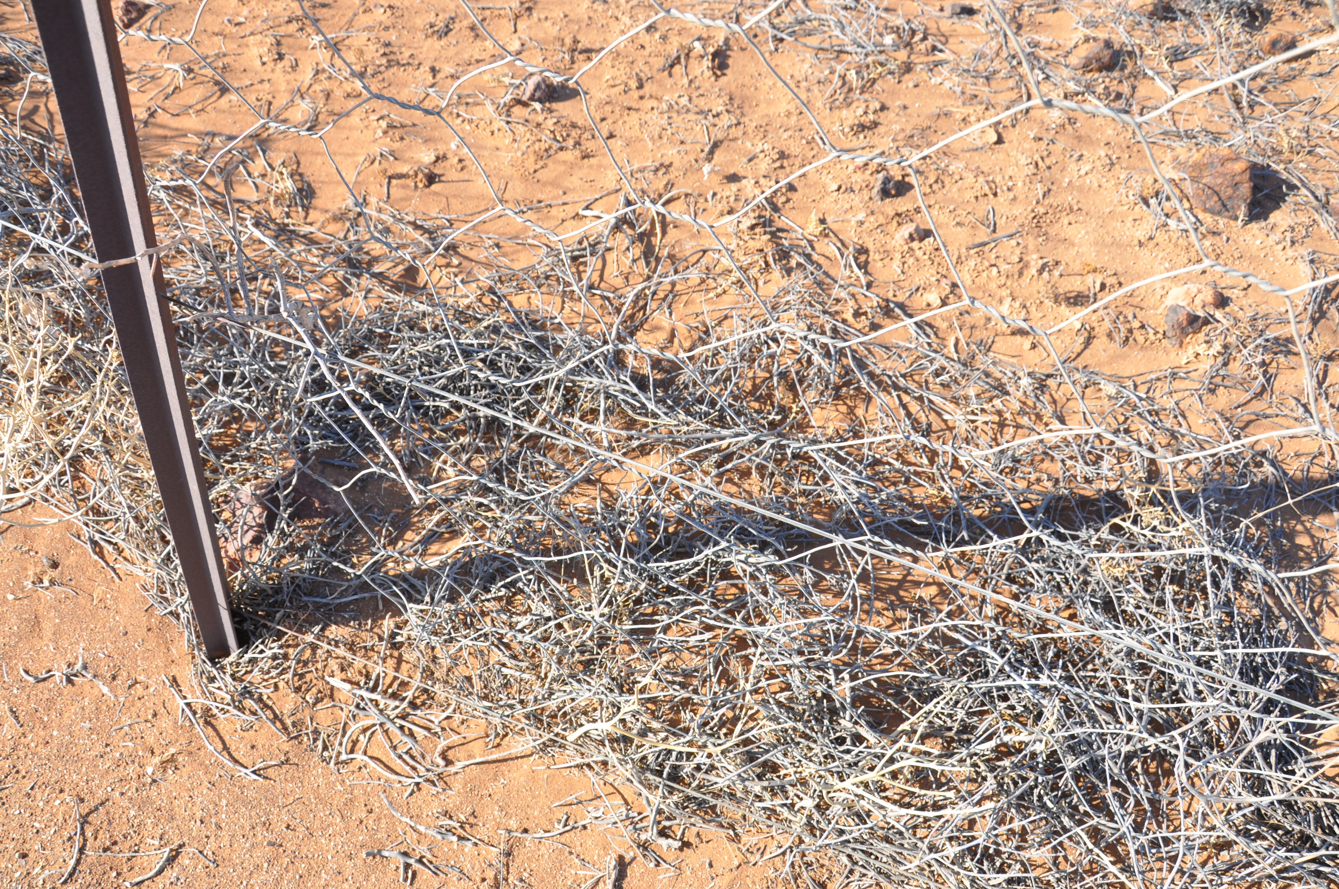 Dingo Fence between Coober Pedy and Oodnadatta